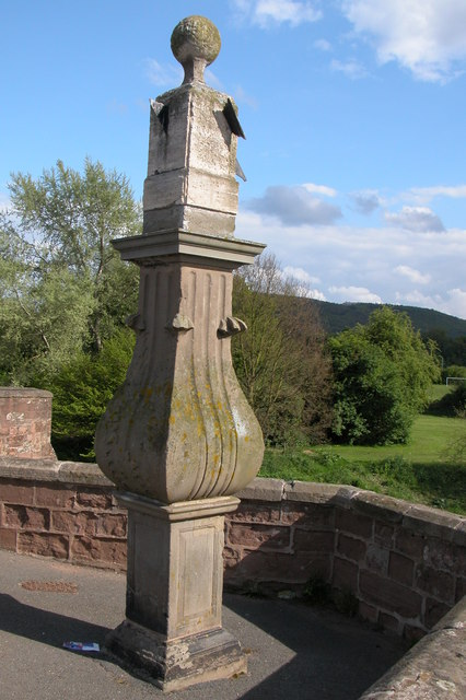 1718 sundial on Wilton Bridge on the River Wye, Herefordshire. Originally the sundial was on the northern side of the bridge, but was later moved to its present position on the south side.